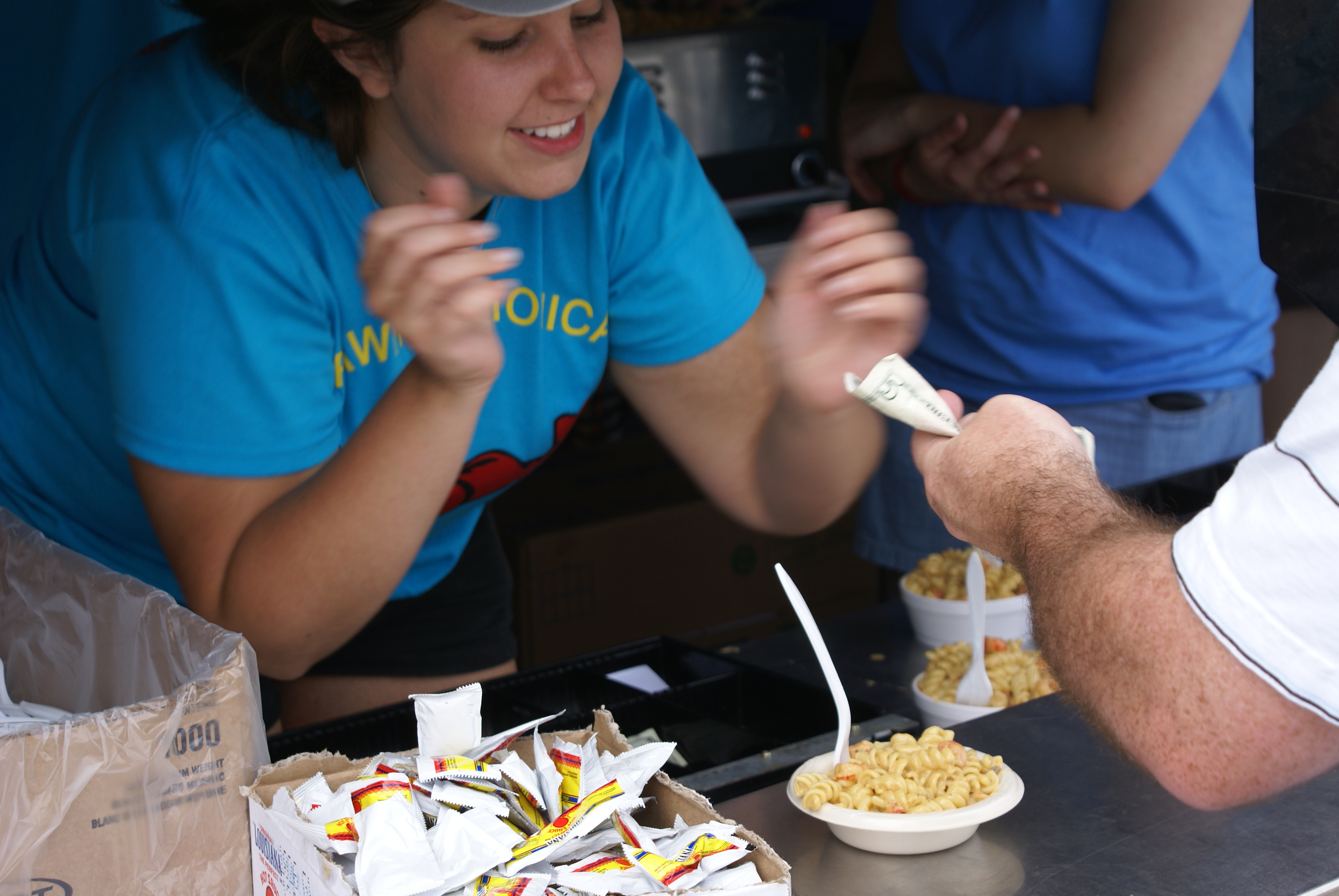 Crawfish Monica at New Orleans Jazzfest